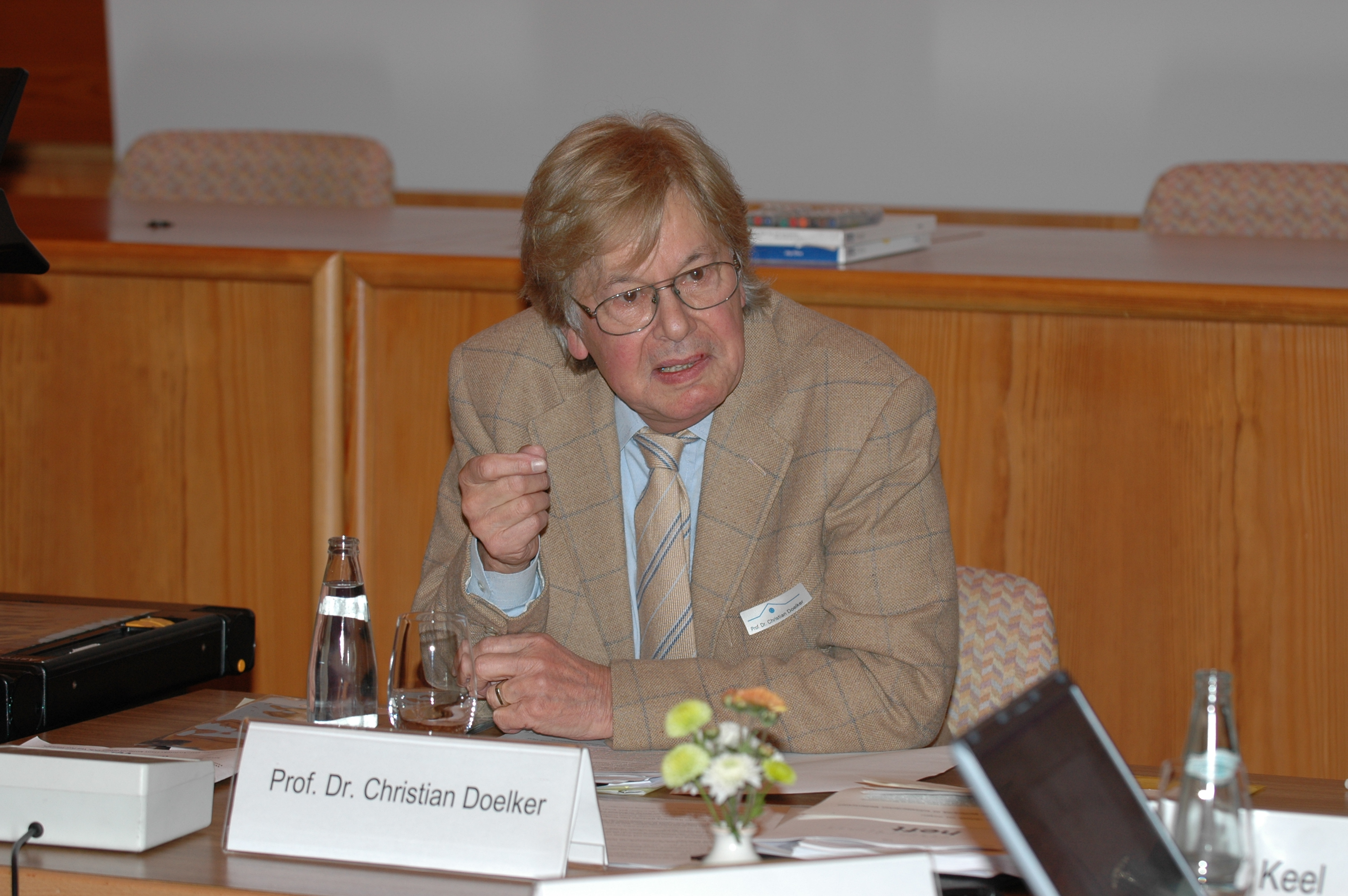 Prof. Christian Doelker